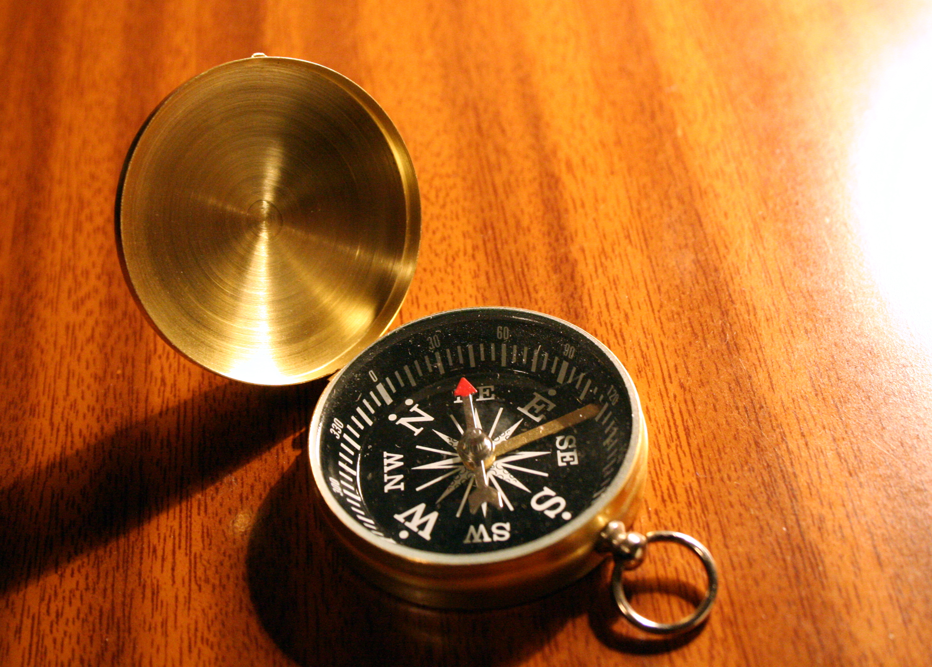 A compass.